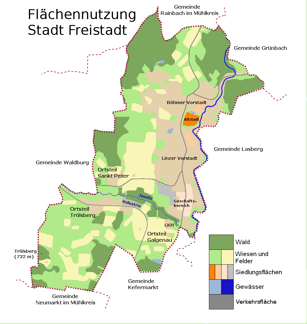 Land use of the municipality Freistadt